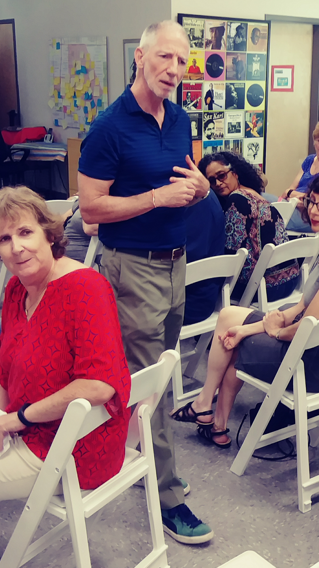 John Capouya at the Sulphur Springs Museum and Heritage Center February 2019 discussing his book Florida Soul and the history of Florida and Blues musicians and soul music in the United States